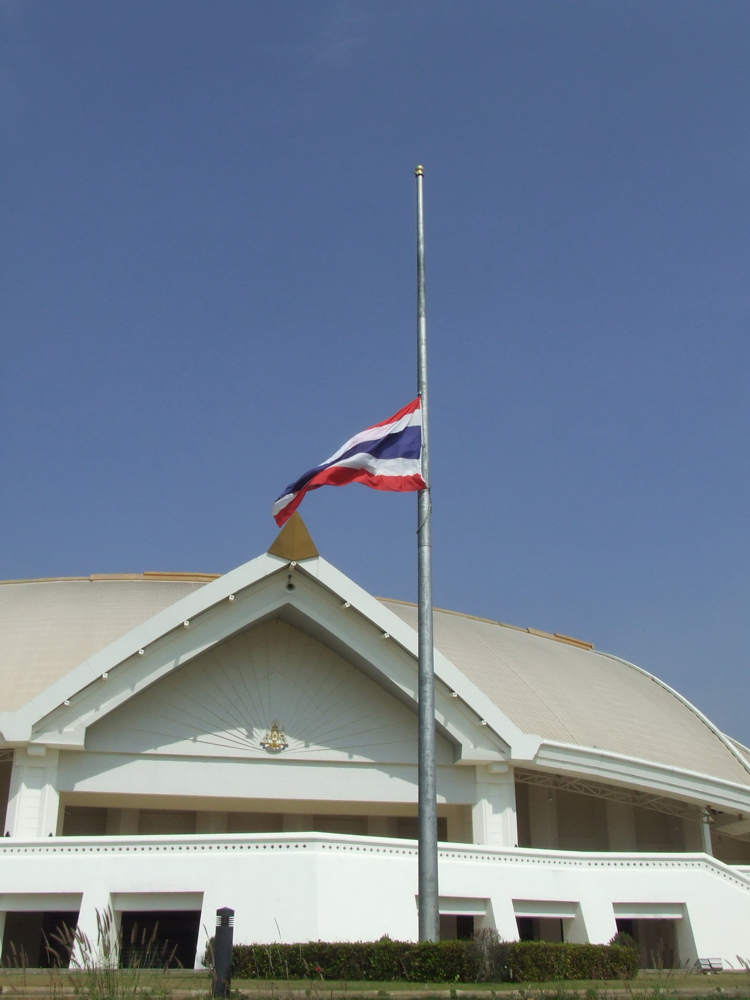 Half-staff for mourning to HRH Princess Galyani Vadhana at Golden Jubilee Convention Hall, Khon Kaen University, Thailand.